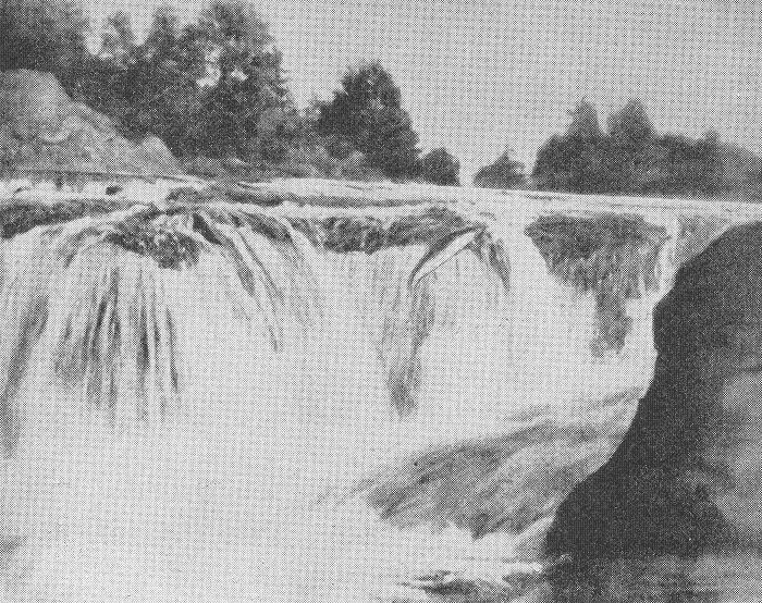 The Rävige rapids before impoundment. The supply of salmon was then good in the river Ätran. The Rävige hamlet had its fishing spot by the waterfall that the salmon jumped up